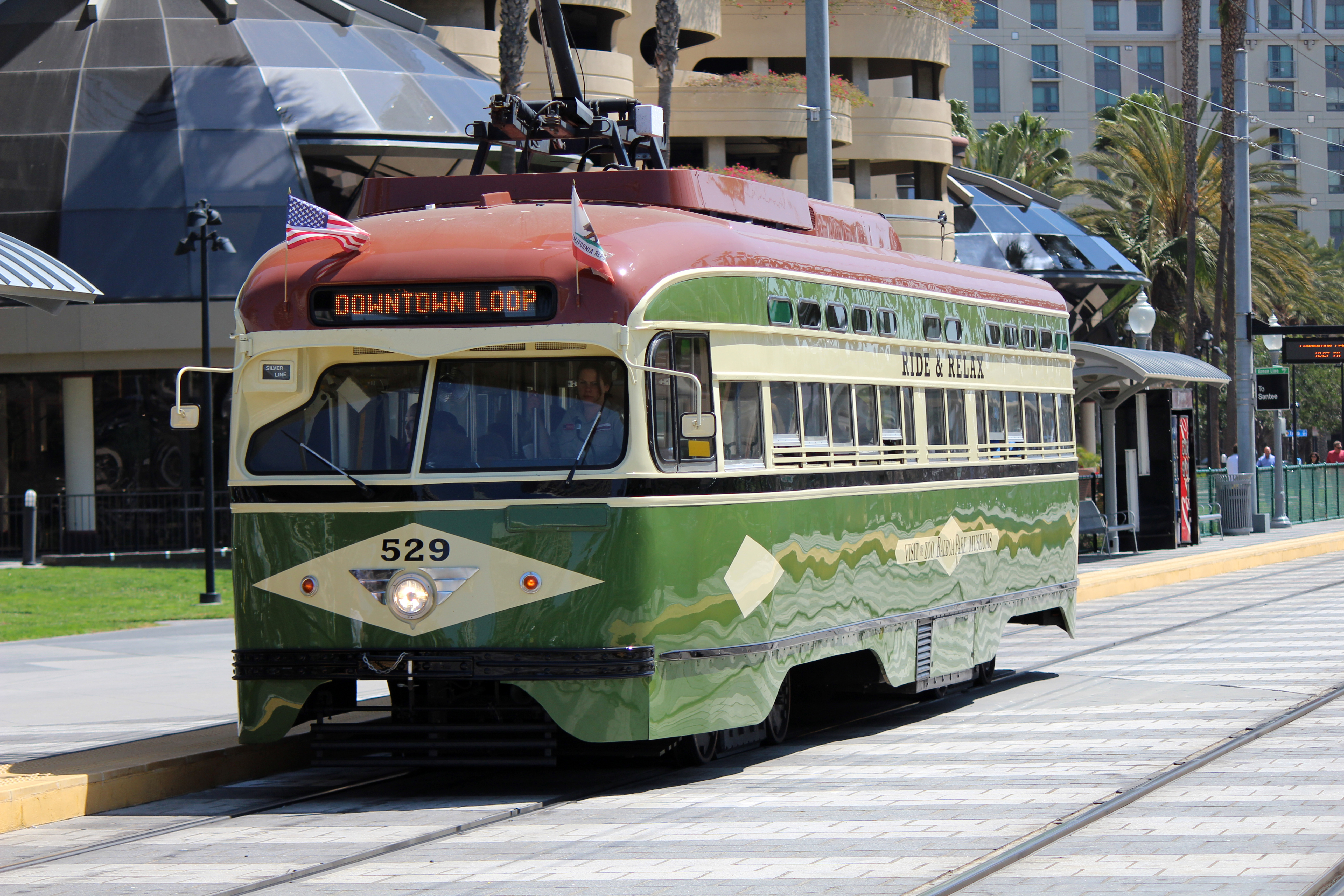 Car #529, a restored 1946 Presidents Conference Committee (PCC) streetcar of the Silver line at the Convention Center trolley station.